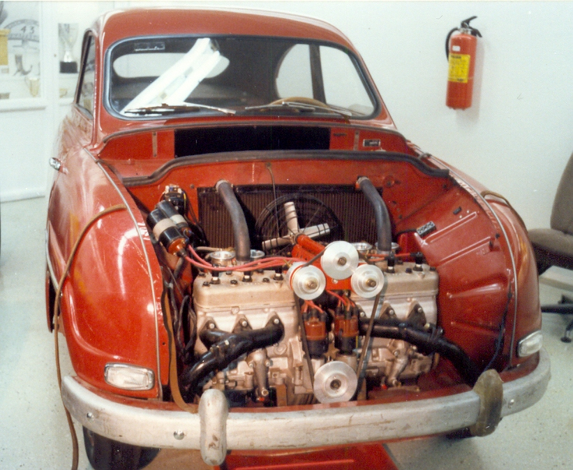 SAAB Monster (del) (cur) 20:20, 17 April 2006 . . Ballista (Talk) . . 821x673 (349209 bytes) (my own photo)